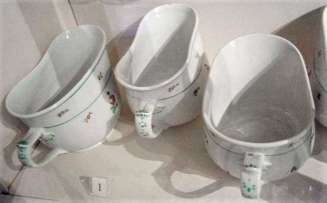 Bourdaloue chamber pots belonging to the former Austrian Imperial Household, Hofburg, Vienna. The Bourdaloue name is said to come from the name of a famous French Catholic priest whose sermons were so long that females of the aristocracy attending them had their maid bring in such pots discreetly under their gown so that they could urinate without leaving attendance.